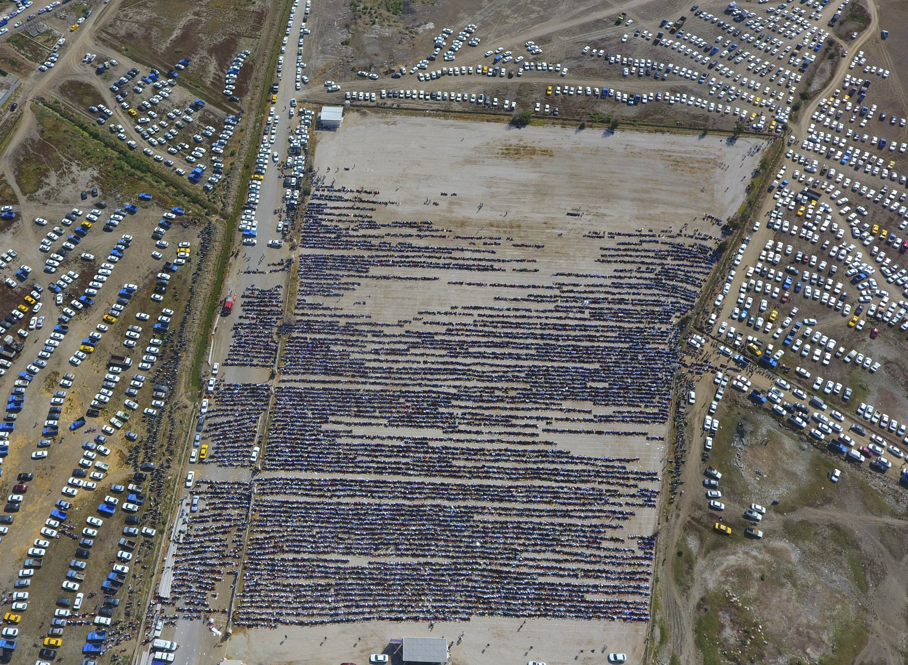 Eid al-Fitr prayer, Bandar Torkaman - 26 June 2017 main album